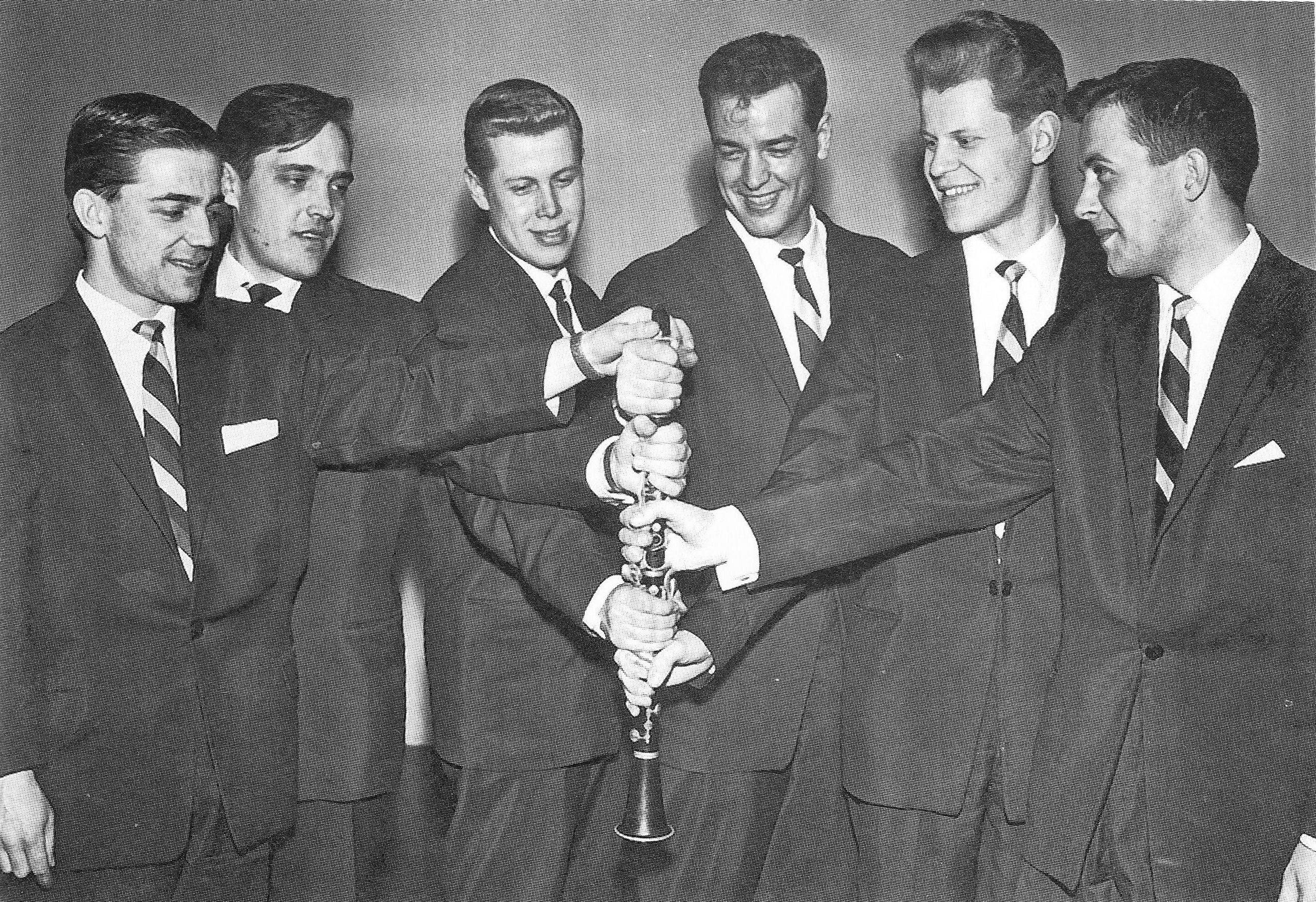 Ronnie Kranck's group